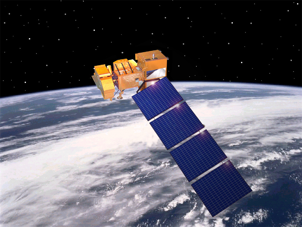 Landsat 7 satellite